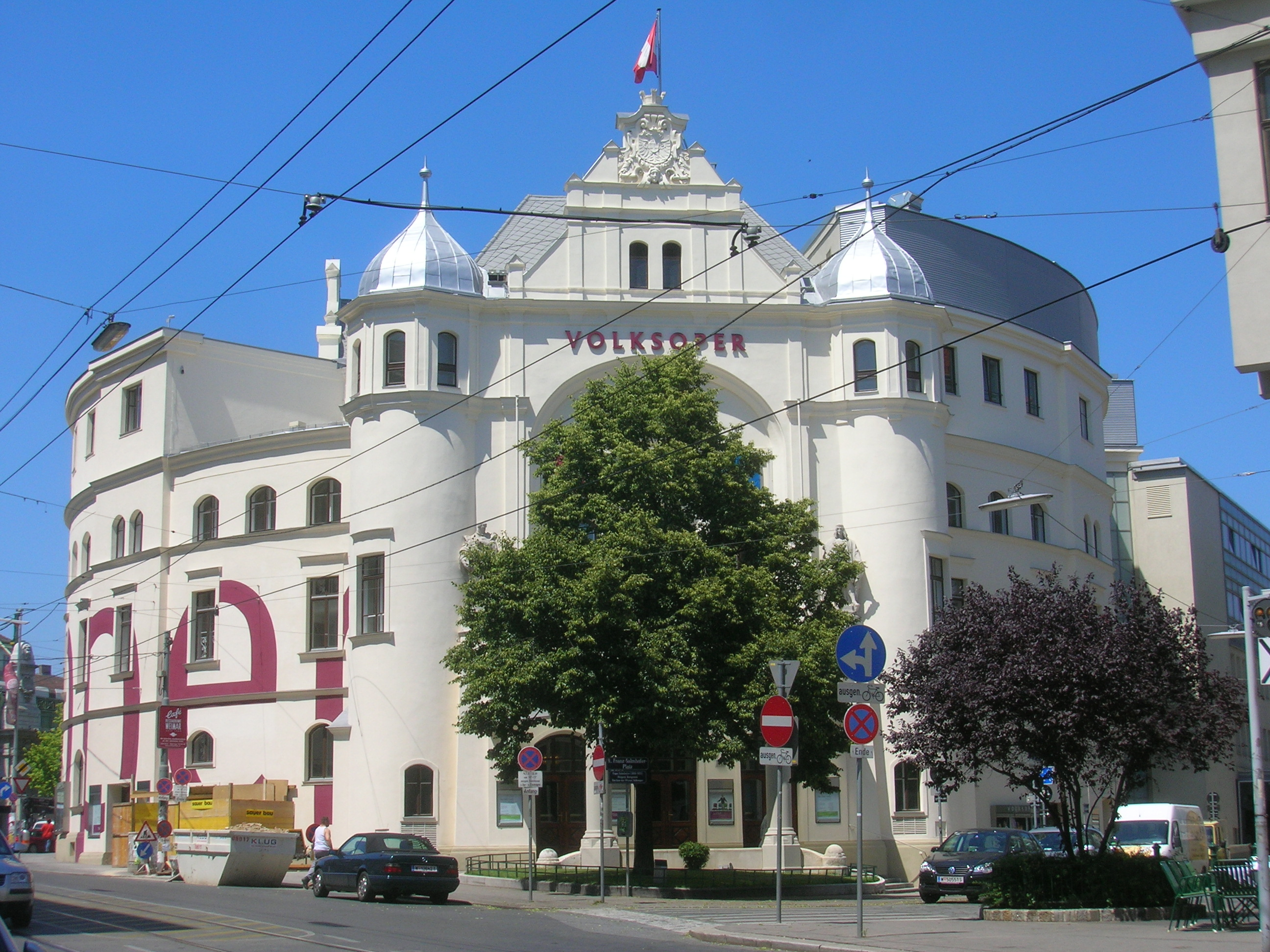 Volksoper in Vienna